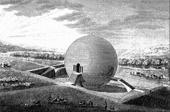 Claude-Nicolas Ledoux: House of the forestry guard in château de Mauperthuis. Project.